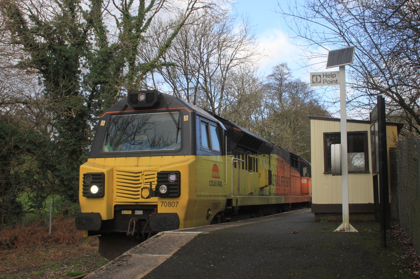 Colas Railfrieght's 70807 passes Coombe Junction Halt with empty cement tanks from Moorswater.